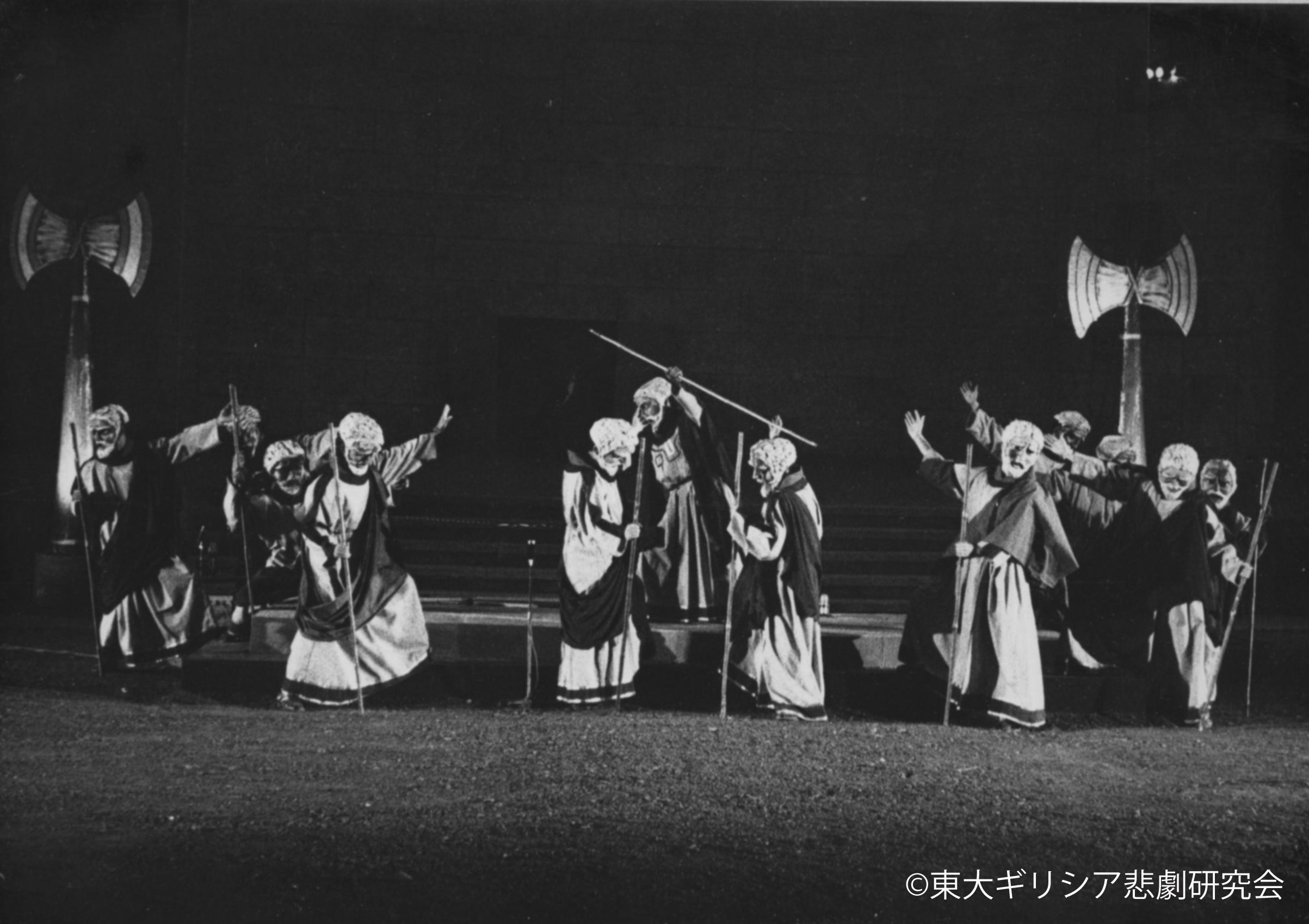 greek Tragedy 1961 Tokyo University Greek Institute-c